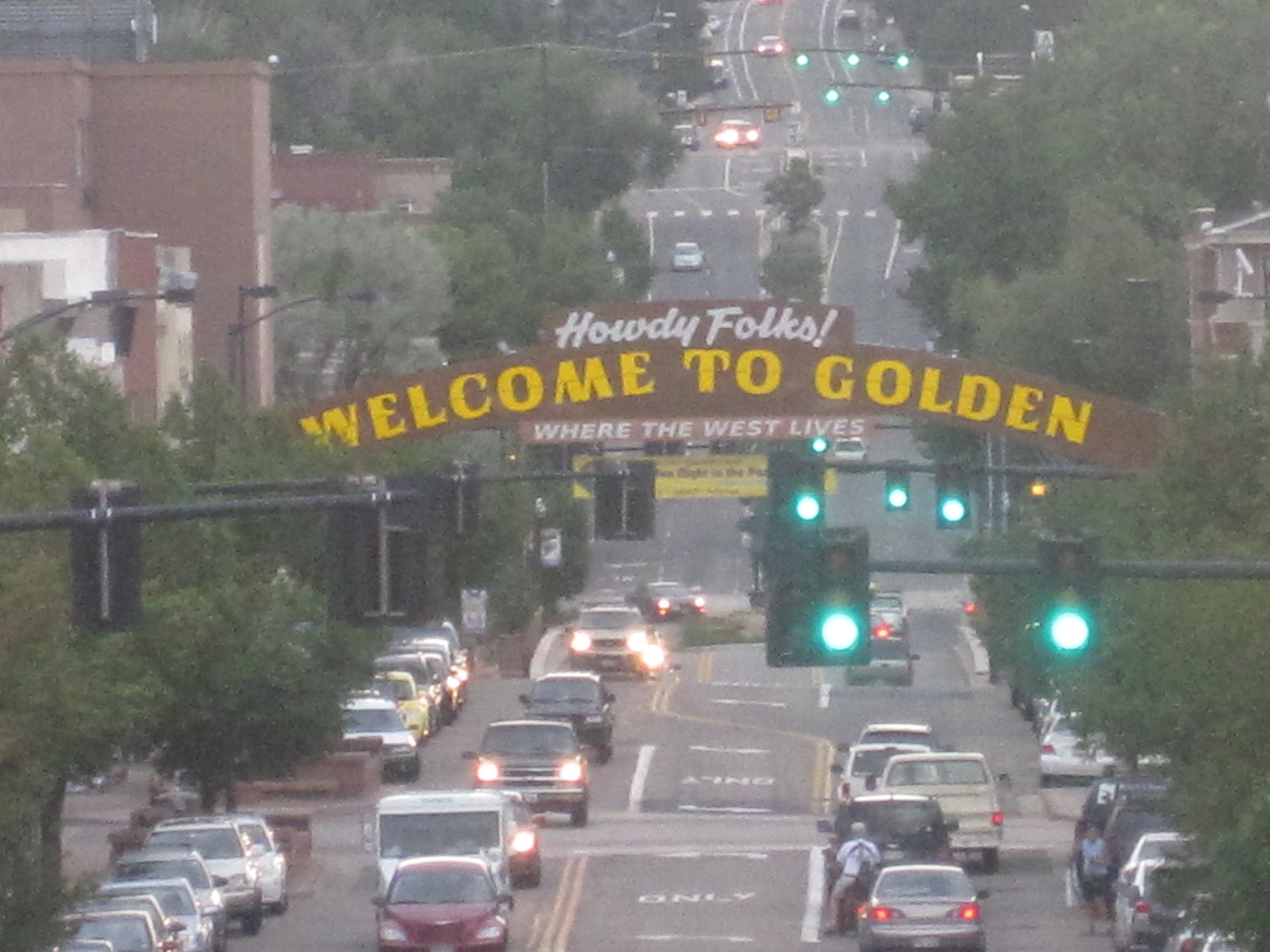 I took photo with Canon camera in Golden, CO.